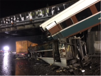 The derailed Cascades trainset on I-5